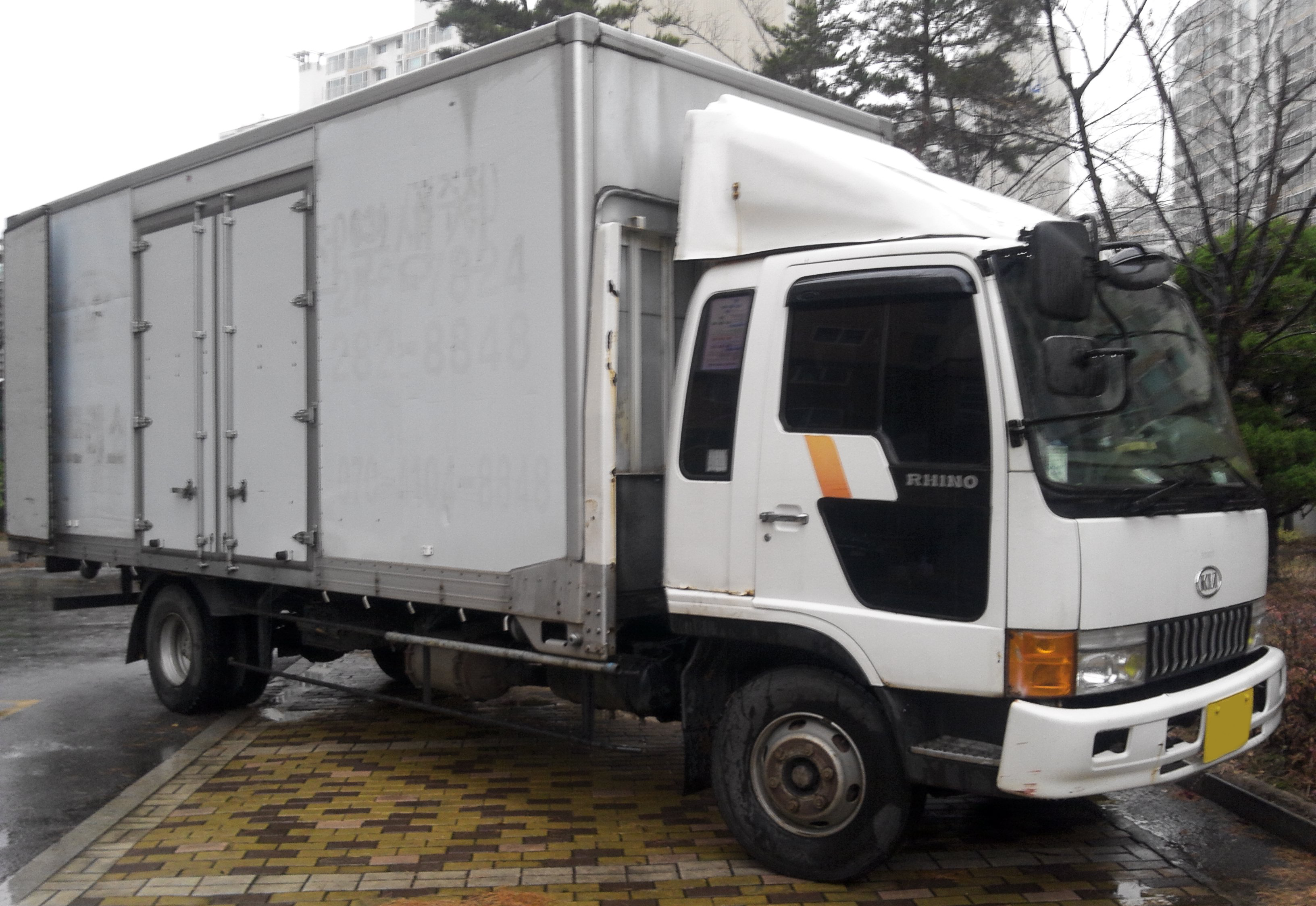 Front-right side of Kia Rhino.